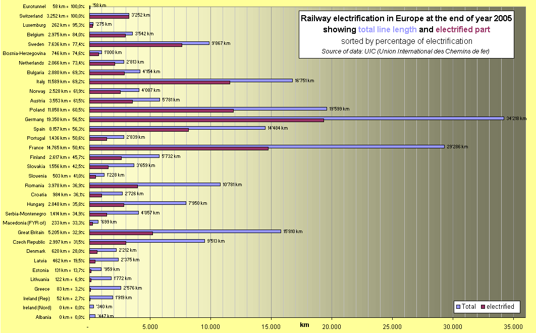 Railway electrification in Europe by country in 2005 - total track length, electrified in km and percentage. Data source: UIC